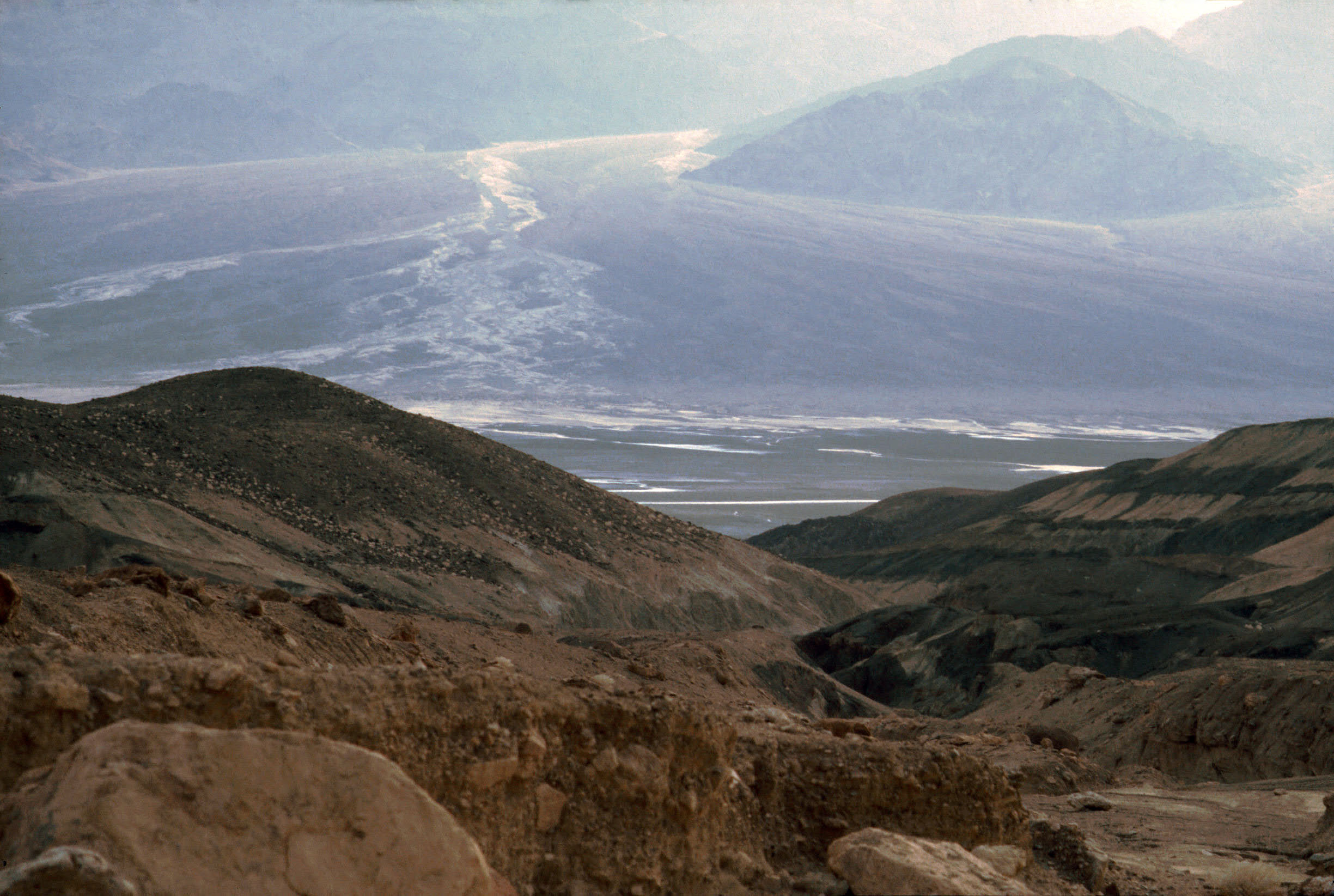 Death Valley,Dante's View,to West Panamint salt fludge